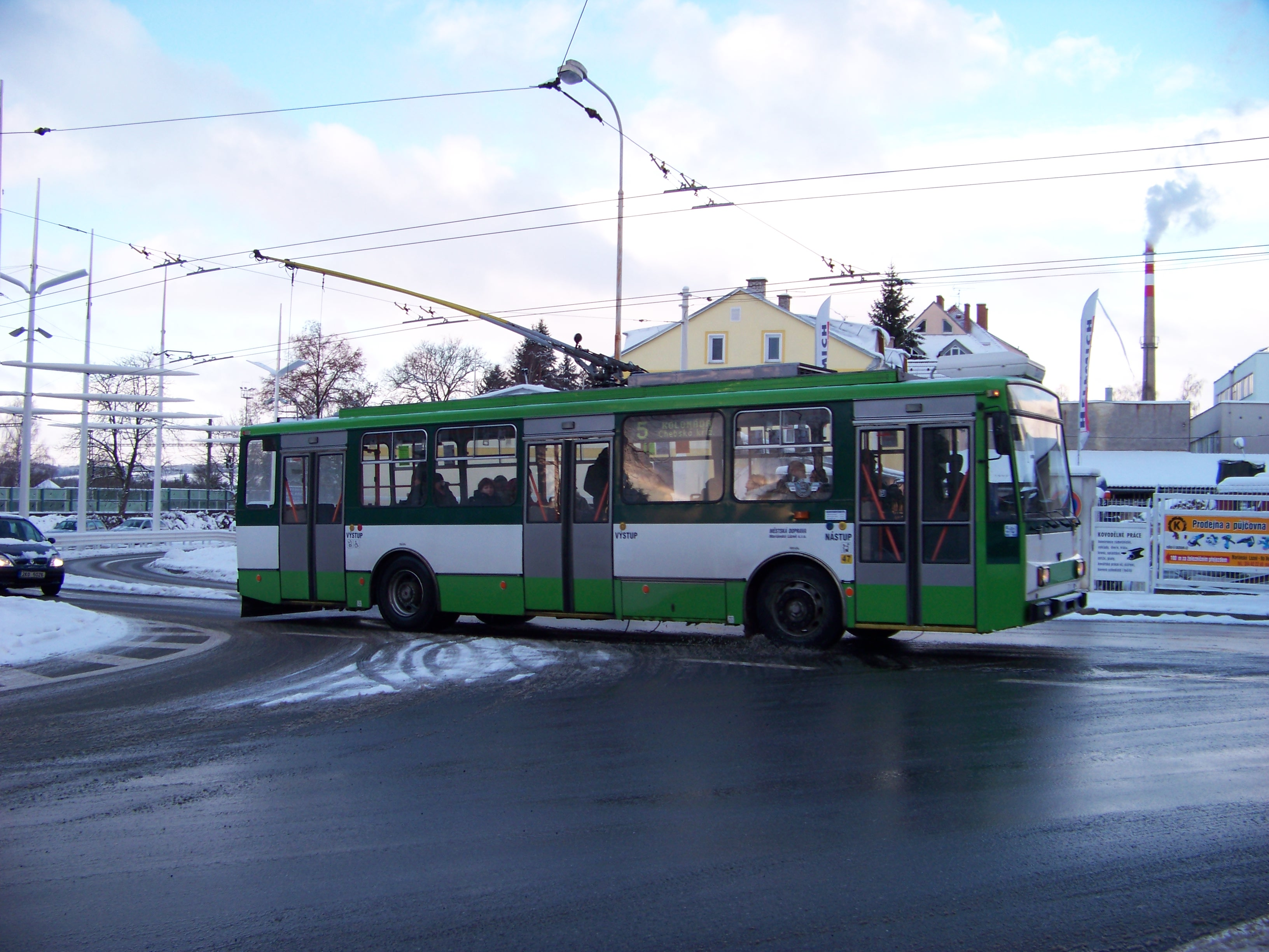 Mariánské Lázně, Cheb District, Karlovy Vary Region, the Czech Republic. Hlavní třída, a trolleybus. - OpenStreetMap(Info)